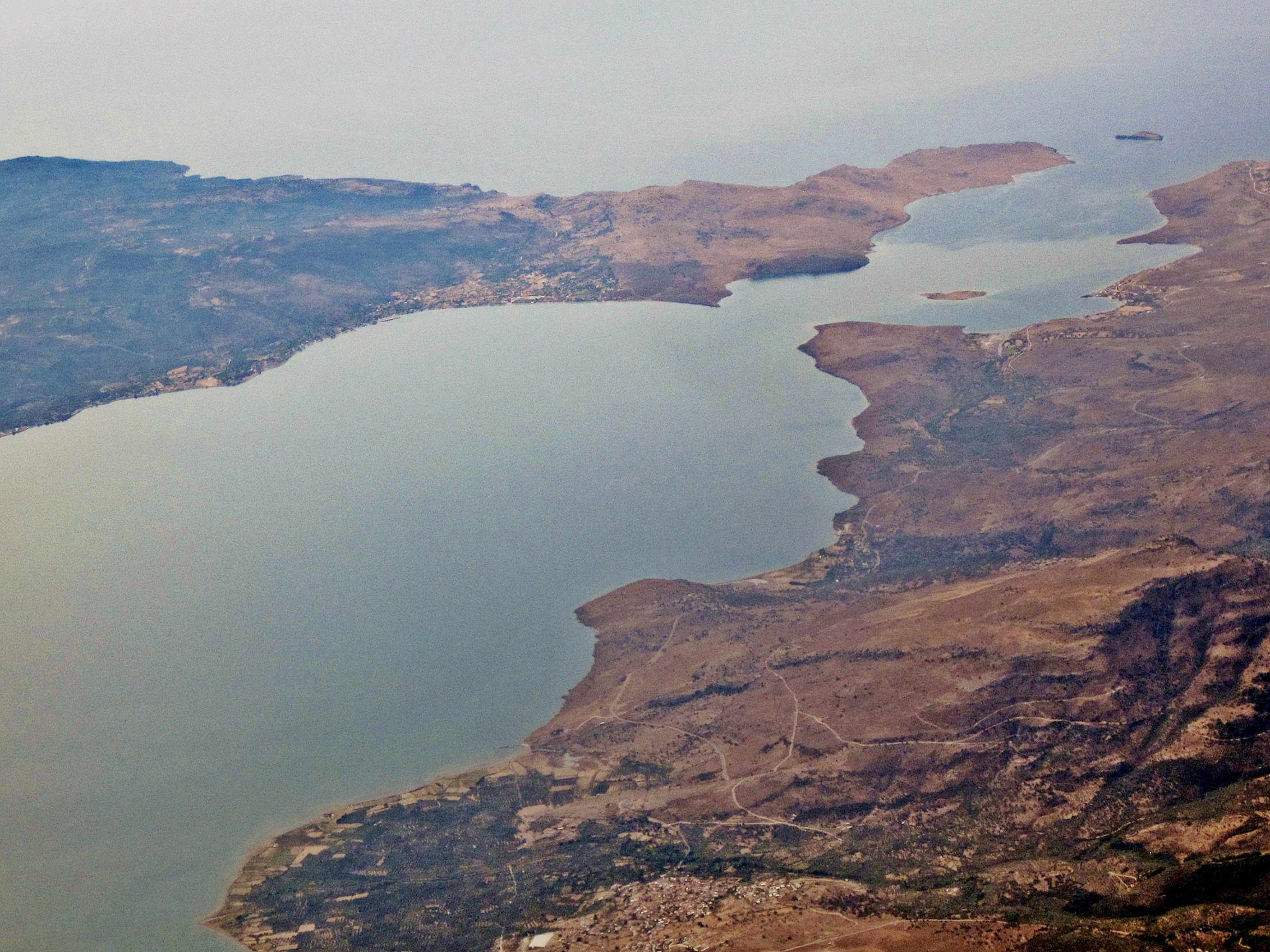 Kolpos Kallonis from the air, Lesbos, Greece